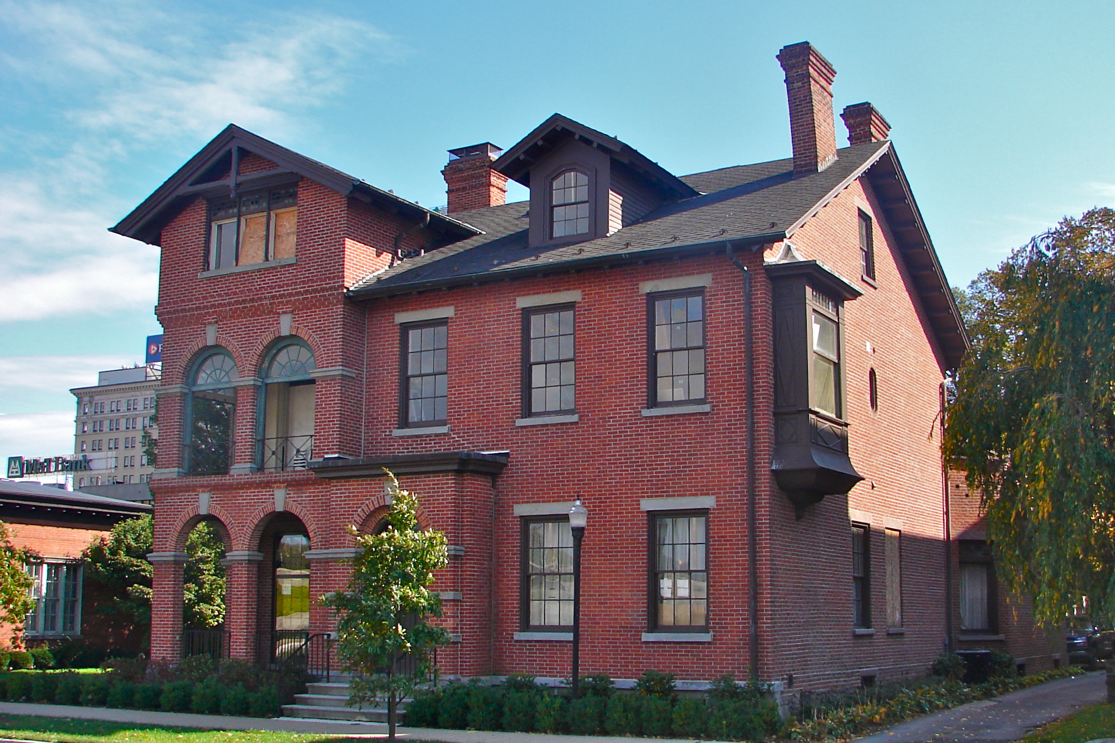 McClintock Hall on the NRHP since March 16, 1972. At 44 South River Street, Wilkes-Barre, Luzerne County, Pennsylvania